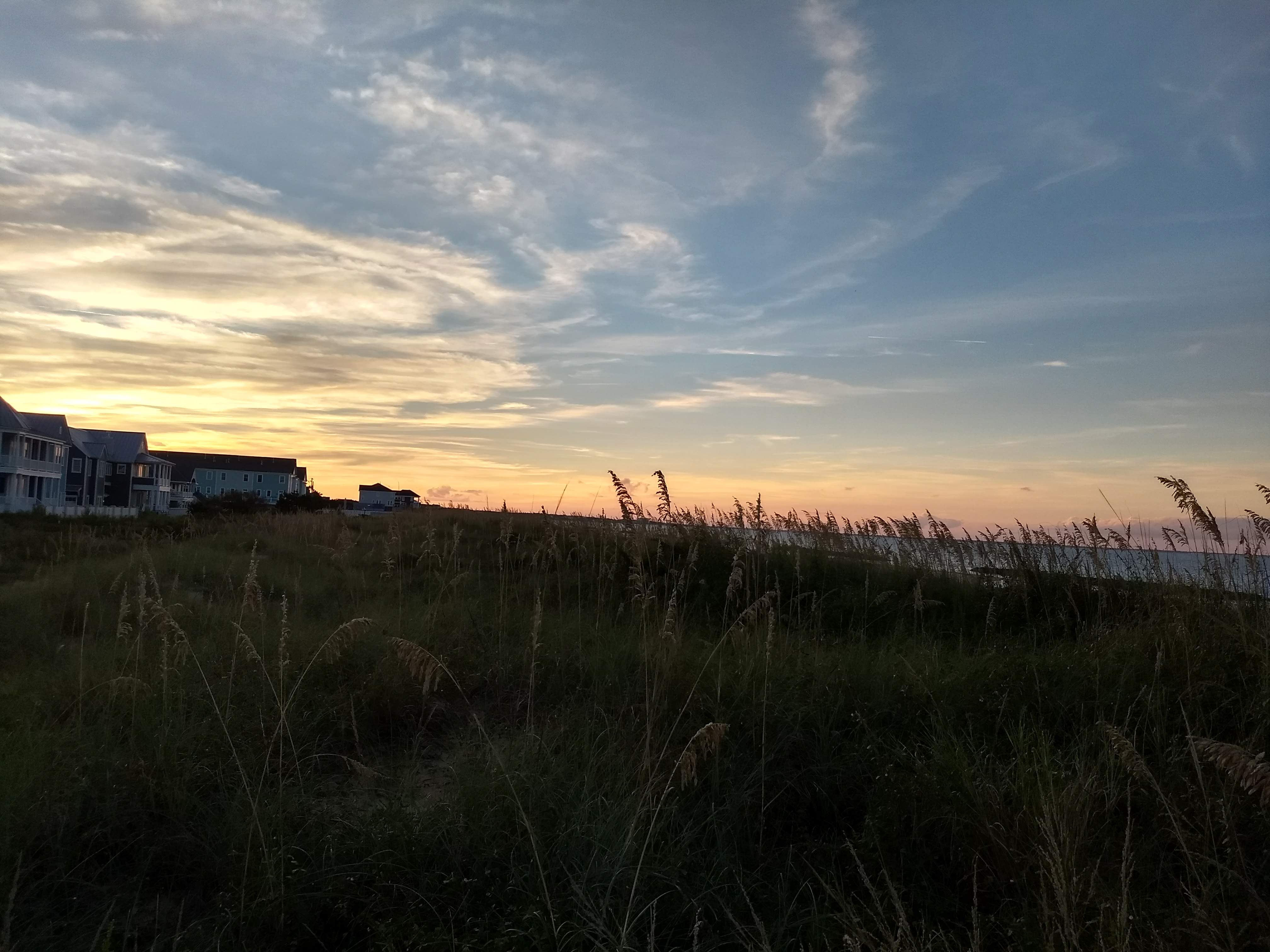 East Beach neighborhood in Norfolk, Virginia at sunset along the Chesapeake Bay.